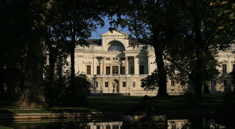 Palais Liechtenstein, Vienna, Austria.